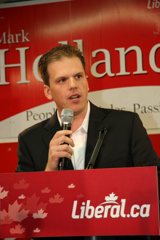 Taken from Mark's Campaign office at the Dion rally